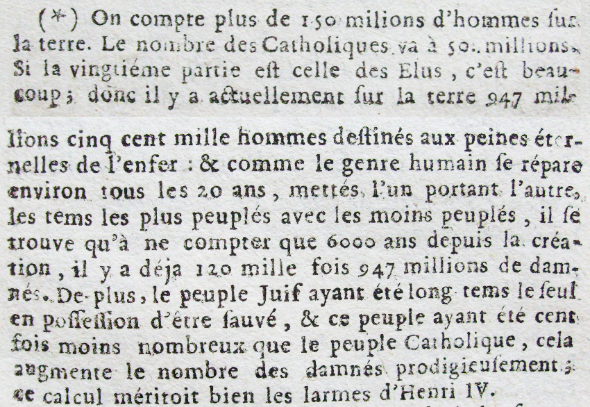 Oeuvres de Voltaire Londres Nourse 1746 La Henriade note sur les damnés